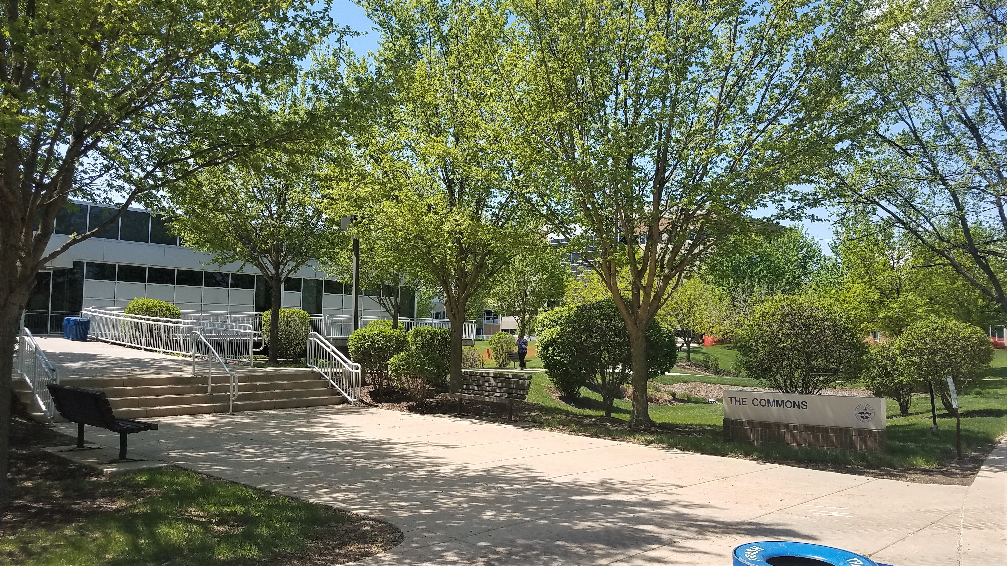 The Commons on the Downers Grove campus of Midwestern University.